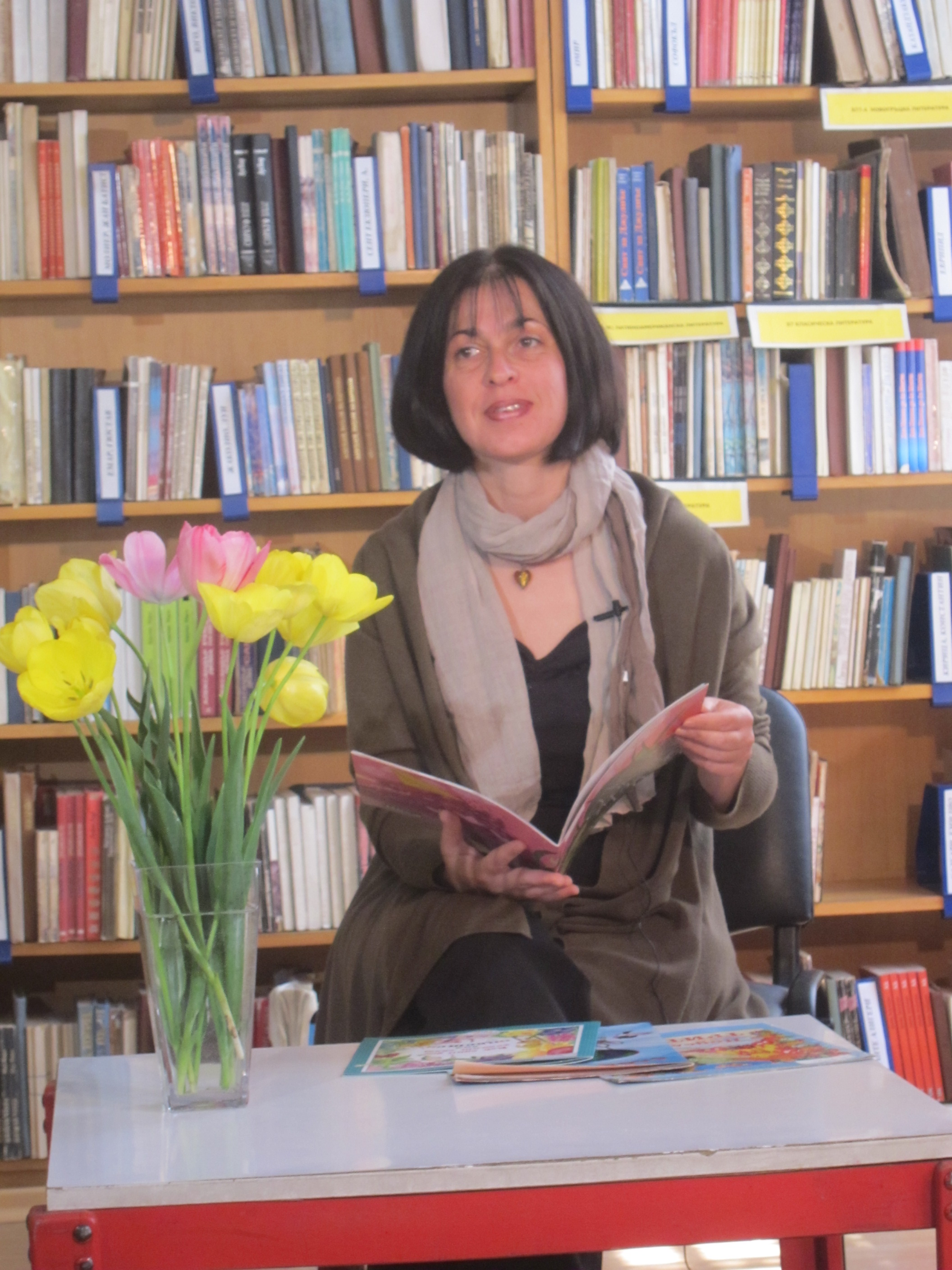 Maya Dalgacheva - Bulgarian children author